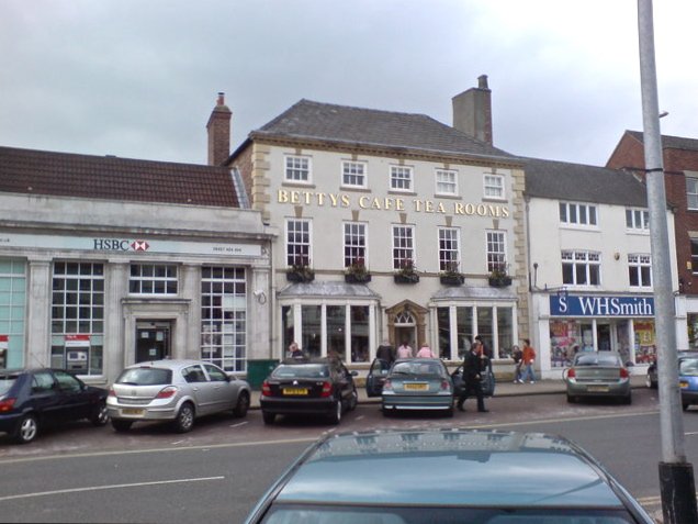 Bettys tearooms in Northallerton